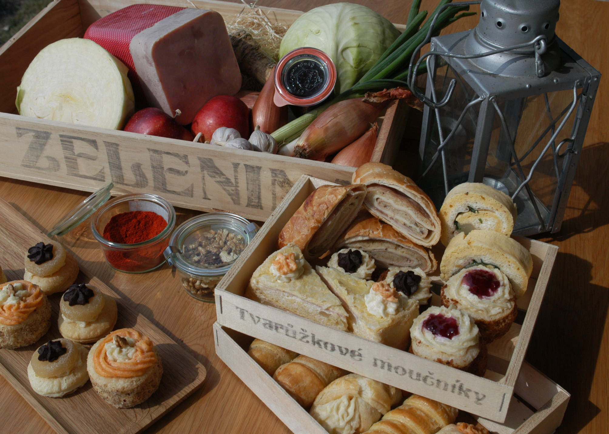 Pastries made from regional cheese - tvarůžky